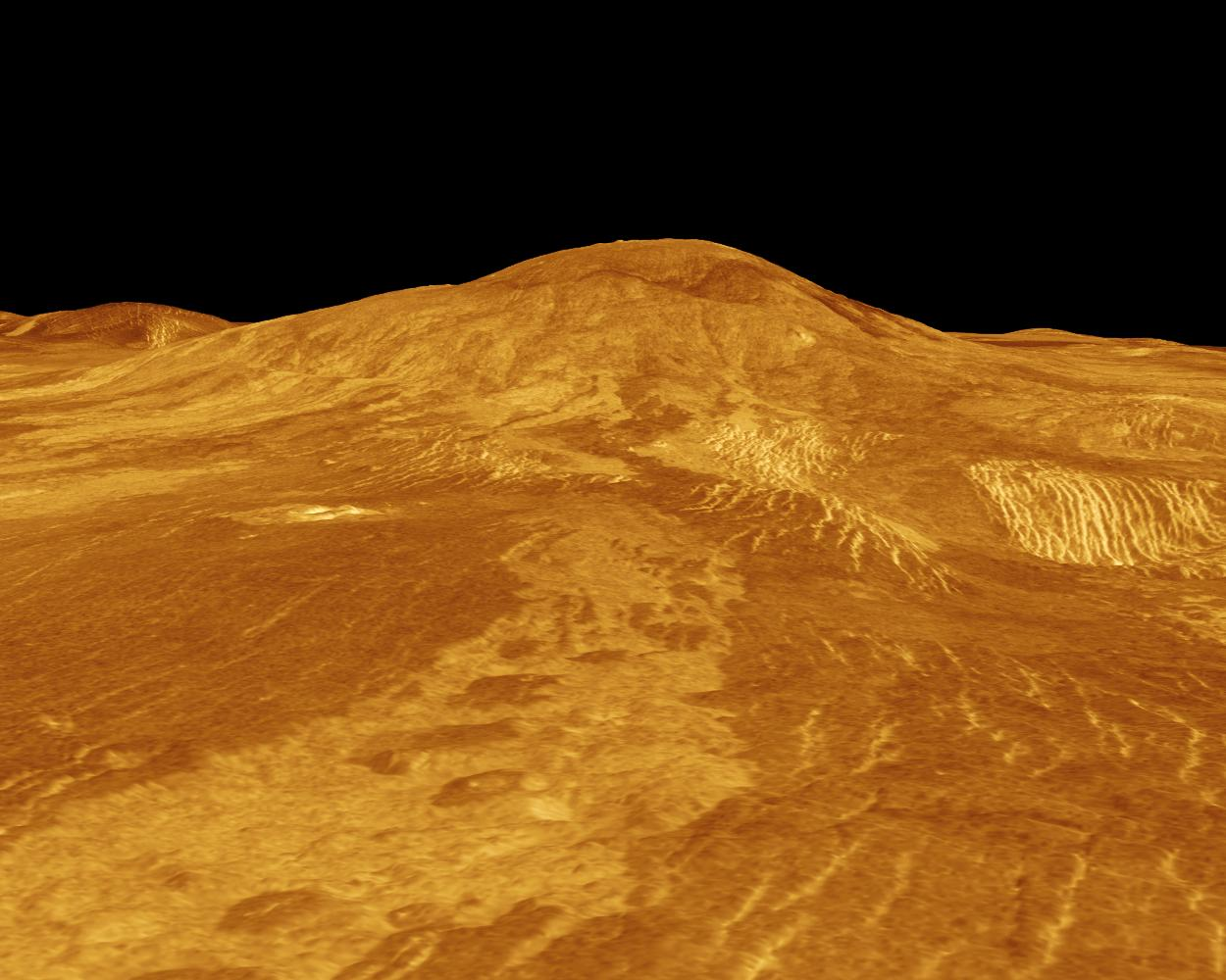 Sif Mons is displayed in this computer-simulated view of the surface of Venus. The viewpoint is located 360 kilometers (223 miles) north of Sif Mons at a height of 7.5 kilometers (4.7 miles) above the lava flows. Lave flows extend for hundreds of kilometers across the fractured plains shown in the foreground to the base of Sif Mons. The view is to the south. Sif Mons, a volcano with a diameter of 300 kilometers (186 miles) and a height of 2 kilometers (1.2 miles), appears in the upper half of the image. Magellan synthetic aperture radar data is combined with radar altimetry to produce a three-dimensional map of the surface. Rays, cast in a computer, intersect the surface to create a three-dimensional perspective view. Simulated color and a digital elevation map developed by the U.S. Geological Survey are used to enhance small-scale structure. The simulated hues are based on color images recorded by the Soviet Venera 13 and 14 spacecraft. The image was produced at the JPL Multimission Image Processing Laboratory and is a single frame from a video released at the March 5, 1991, JPL news conference.